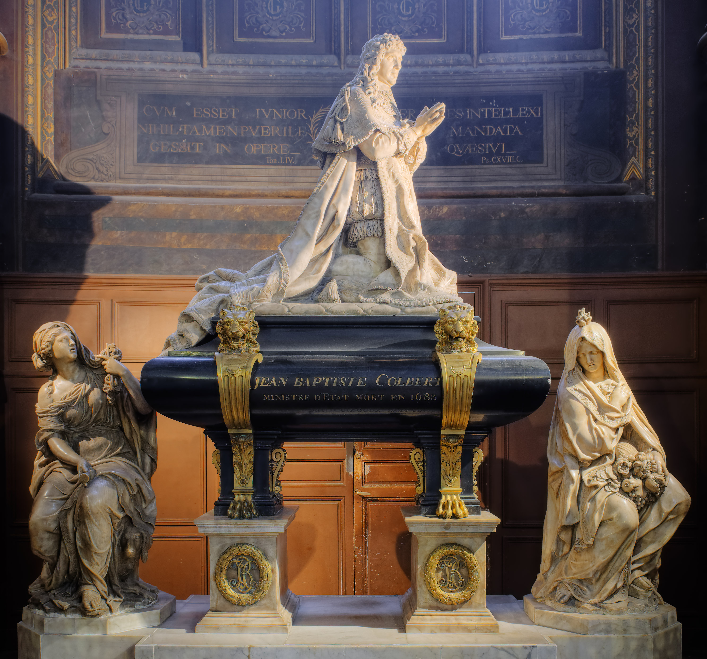 The tomb of Jean-Baptiste Colbert, by Antoine Coysevox and Jean-Baptiste Tuby, 1687, in Saint-Eustache's church, Paris, France.